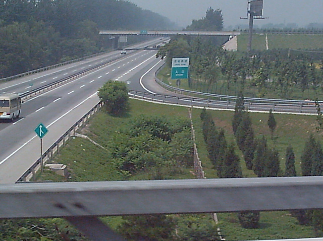 Jingha Expressway and the 6th Ring Road.